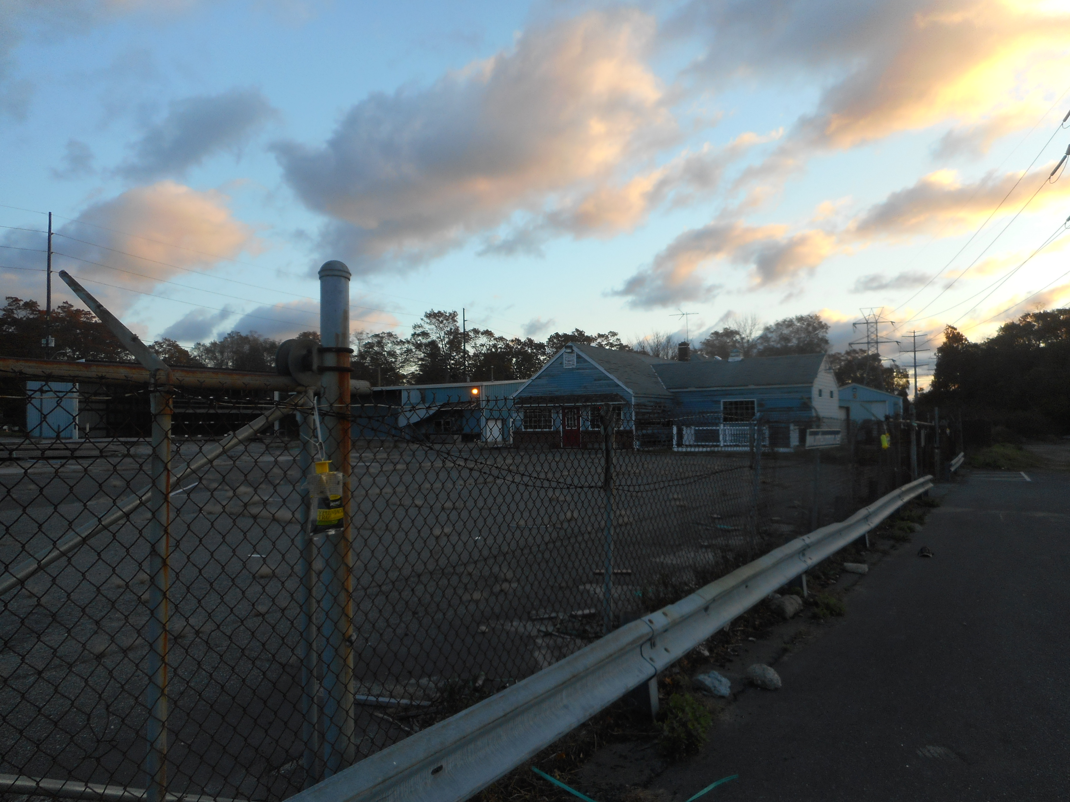 Site of the former Thurber Lumber Company yard, which was closed since 2016, but for years earlier occupied the site of the former Rocky Point Long Island Rail Road station on the abandoned Wading River Branch in Rocky Point, New York. This shot was taken from Prince Street east of Broadway.